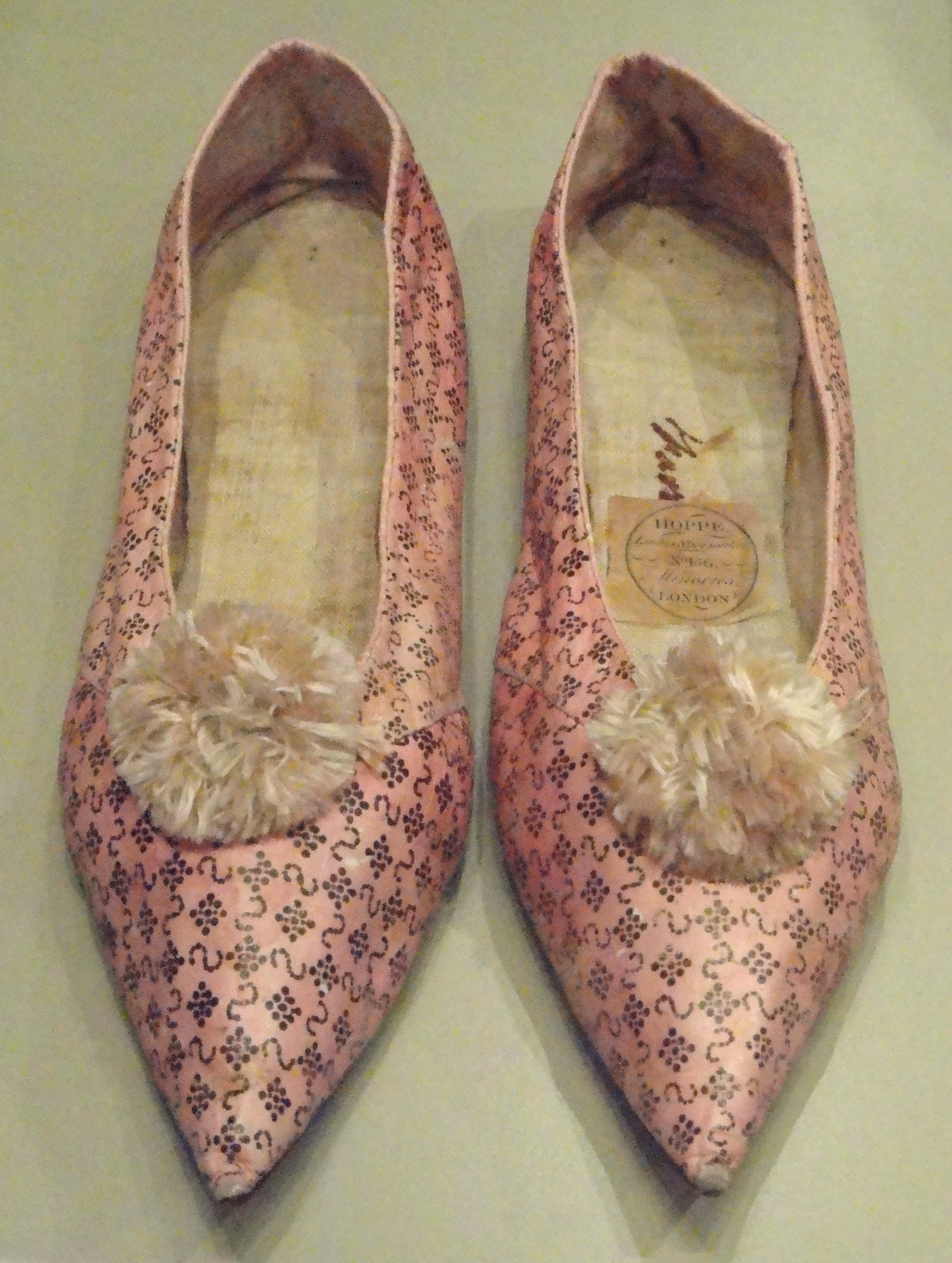 Exhibit in the Patricia Harris Gallery of Textiles & Costume, Royal Ontario Museum, Toronto, Ontario, Canada. This exhibit is old enough so that it is in the public domain, and photography was permitted in the museum. I took this photograph and release it into the public domain.